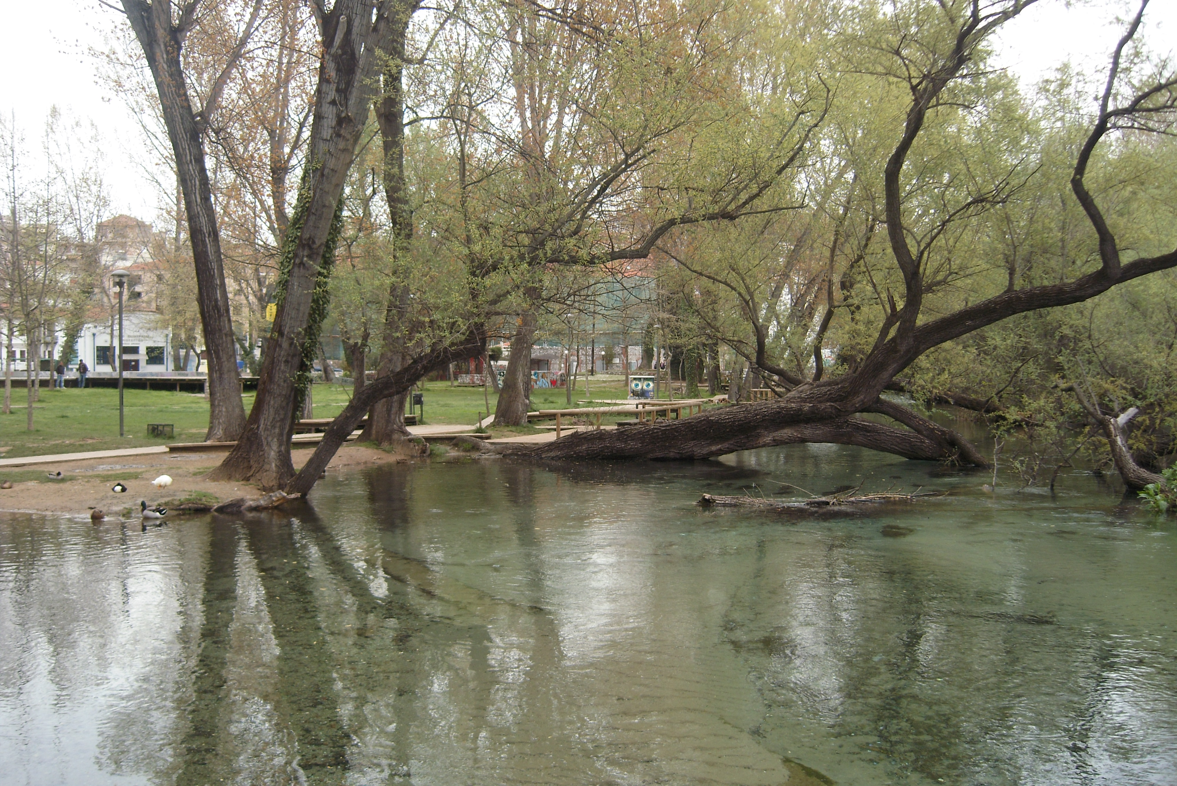 Agia Varvara Park